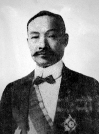 Historical portrait photo of Gao Enhong, governor of the the Jiaozhou territory and first president of the private Qingdao University in Shandong, China.